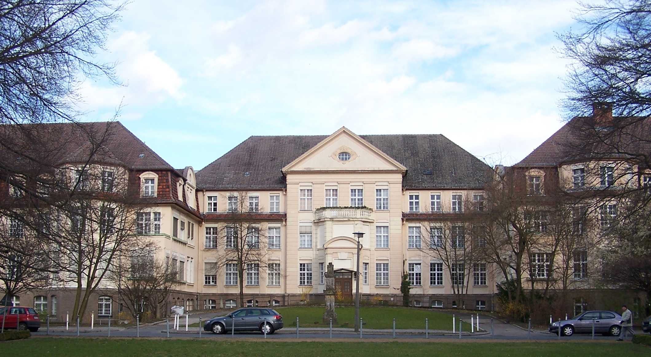 The old building of the hospital Berlin-Köpenick